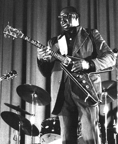 Guitarist Albert King in Paris, France